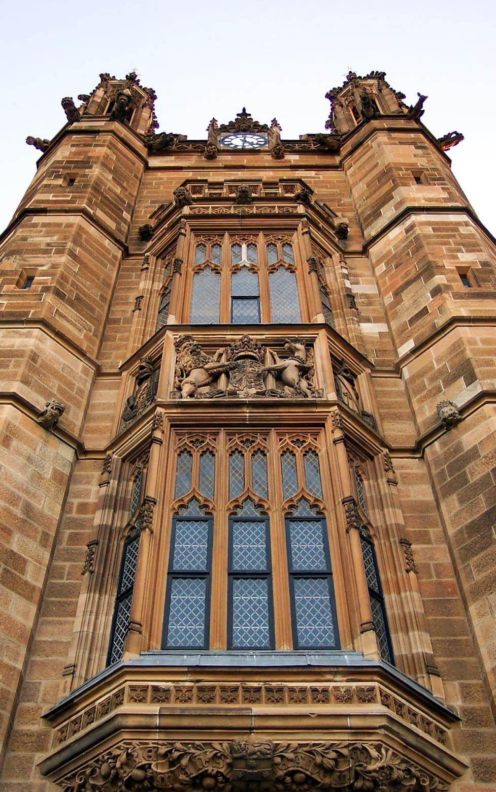 The clock tower of the Main Quadrangle at the University of Sydney. Taken by Enoch Lau on 8 June 2004. As a courtesy, please let me know if you alter this image or this image description page. Original filename was 100_2838.JPG. Edited by User:Shoejar - tilted and cropped for symmetry.